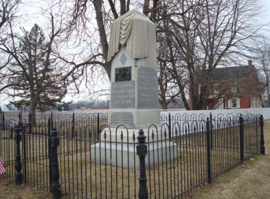 57th Pennsylvania Infantry Monument, Emmitsburg Road, Gettysburg Battlefield.